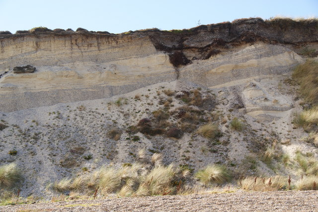 Minsmere Cliffs You can see that these cliffs are formed from very soft sandstone, and therefore eroding rapidly.